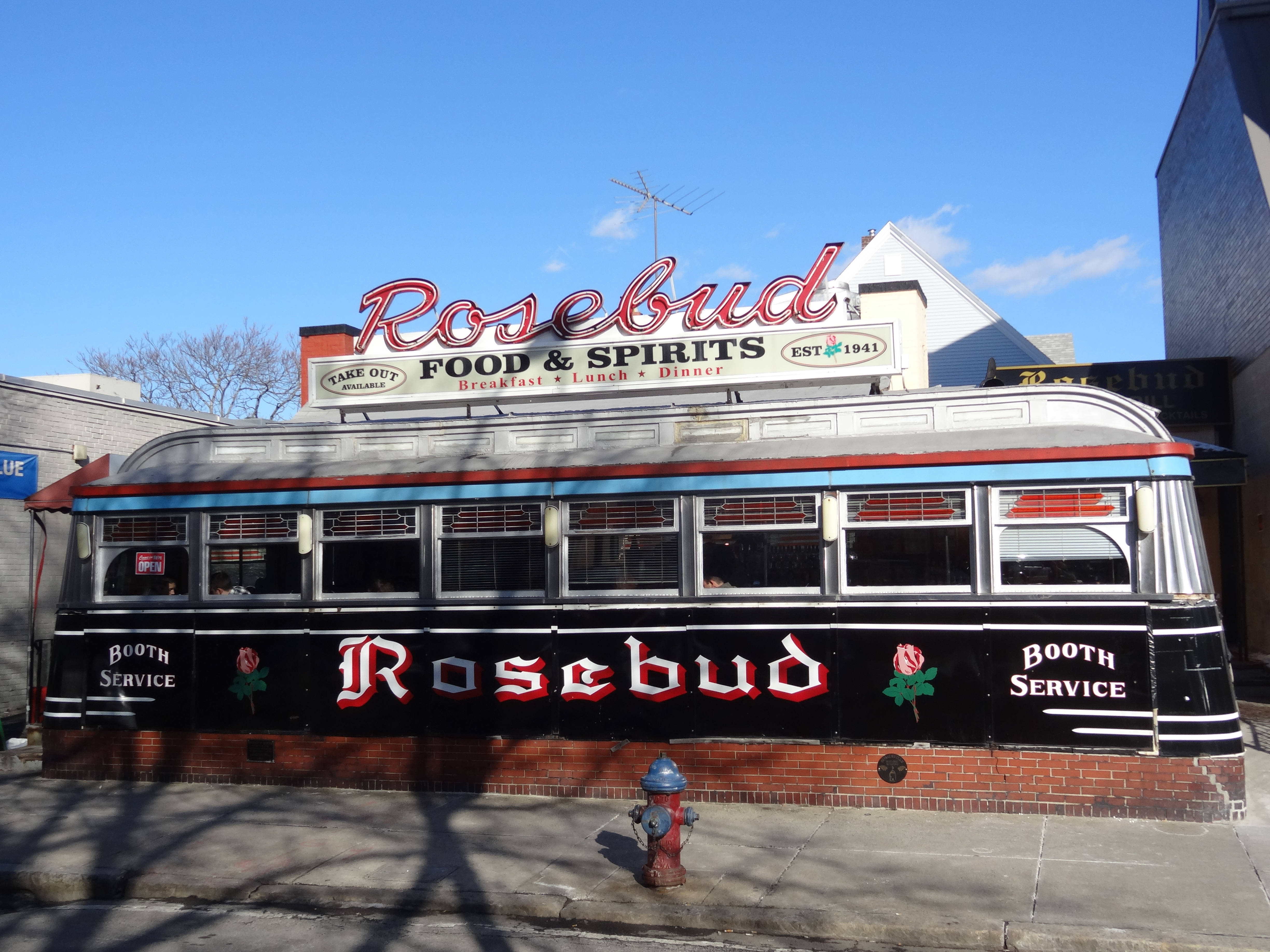 Rosebud Diner 381 Summer Street Somerville, Massachusetts Worcester Lunch Car Company #773, 1941